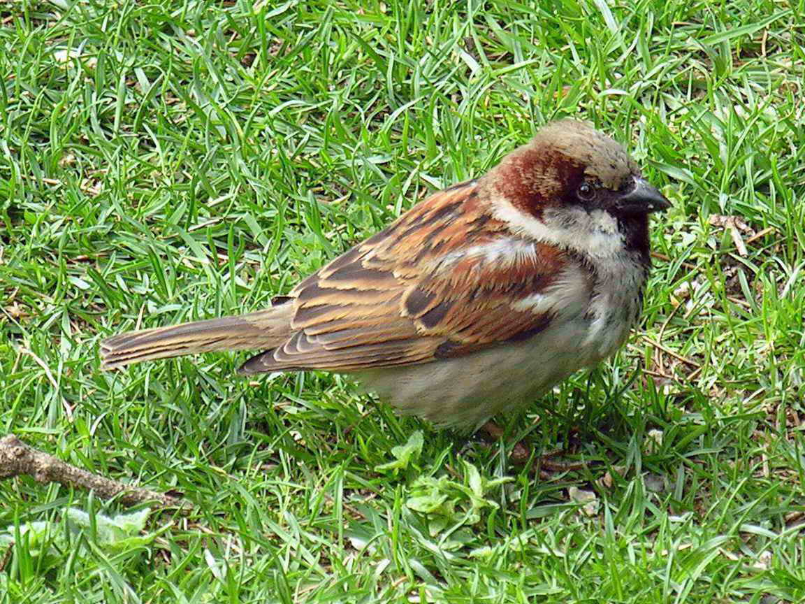 A male House Sparrow (Passer domesticus) in Bastavales, Galicia, Spain